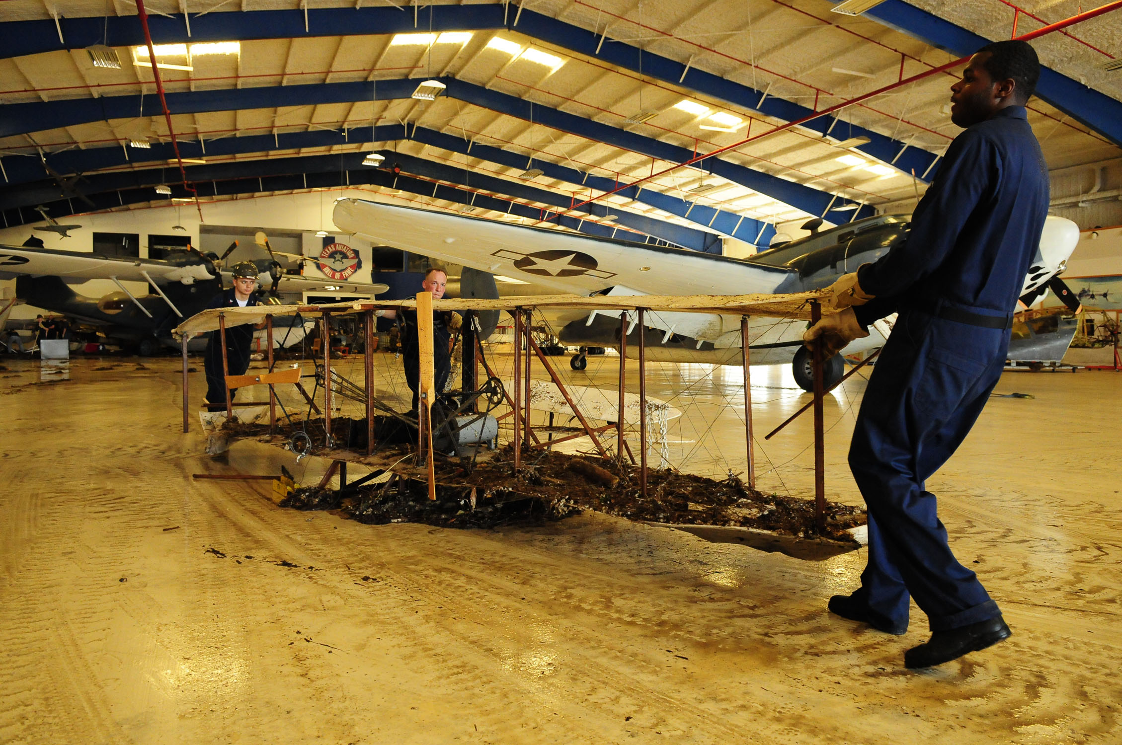 U.S. Navy Aviation Maintenance Administrationman 2nd Class Michael Owen, left, Aviation Structural Mechanic 2nd Class Alan Schneider and Aviation Ordnanceman 1st Class Chris Grady assigned to the amphibious assault ship USS Nassau (LHA 4), move a damaged antique plane from the Lone Star Flight Museum while supporting civil authorities in disaster recovery after Hurricane Ike in Galveston, Texas, Sept. 21, 2008.